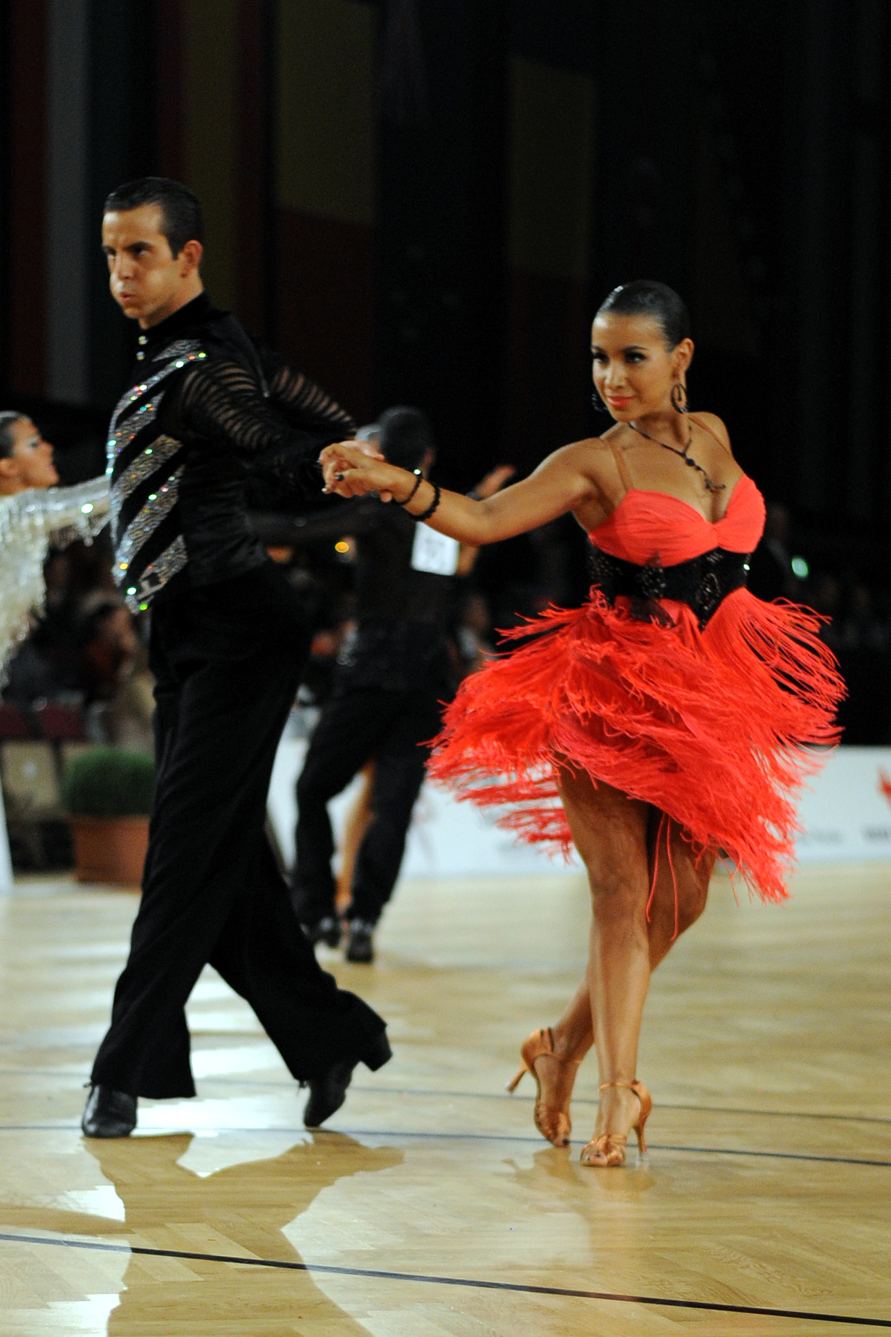 Austrian Open Championships Vienna, 2012 WDSF World Dancesport Championships Latin 16.-18. November 2012 The making of this work was supported by Wikimedia Austria. For other files made with the support of Wikimedia Austria, please see the category Supported by Wikimedia Österreich. Personality rights warning Although this work is freely licensed or in the public domain, the person(s) shown may have rights that legally restrict certain re-uses unless those depicted consent to such uses. In these cases, a model release or other evidence of consent could protect you from infringement claims.